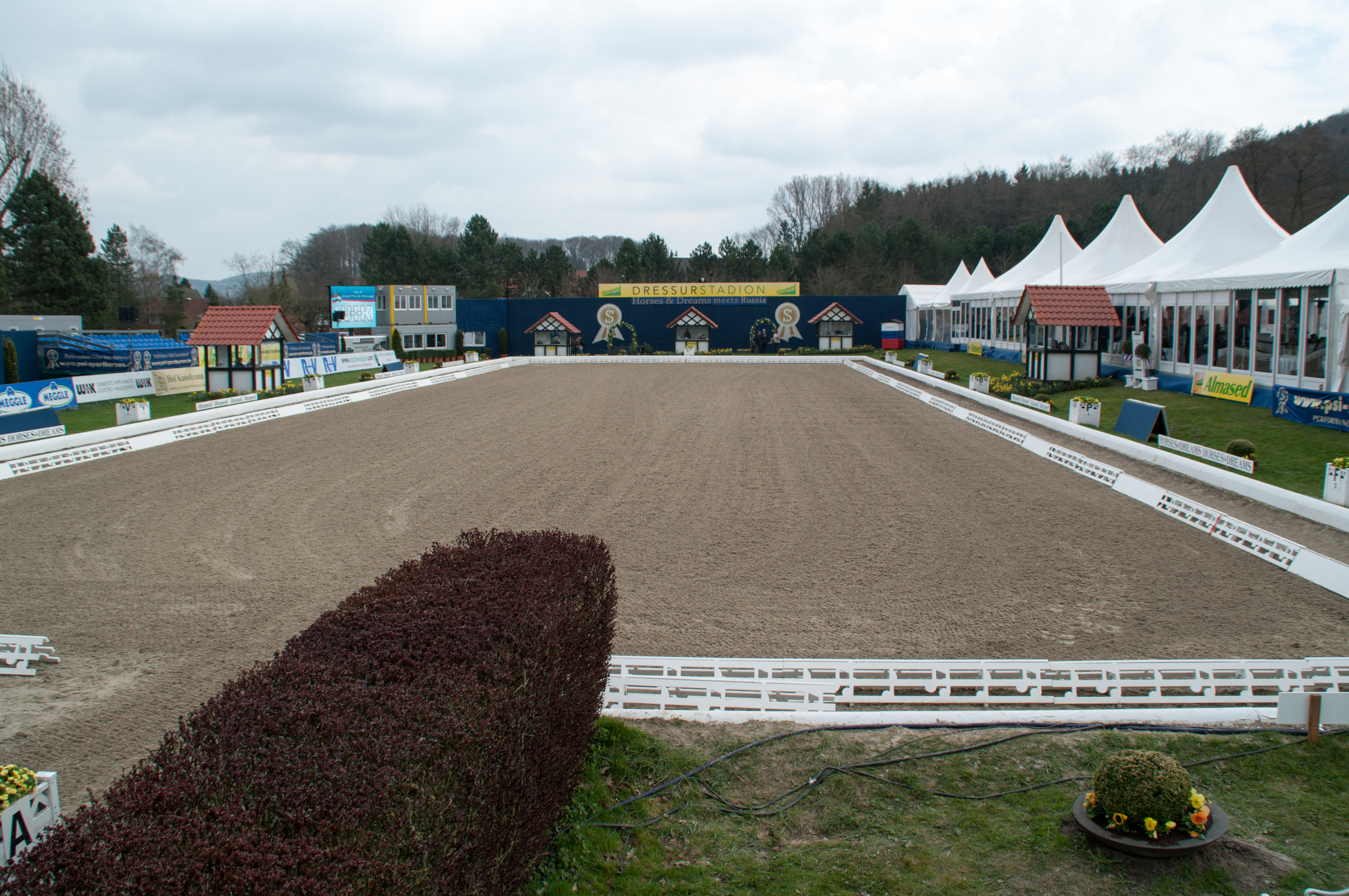 Horses & Dreams 2013